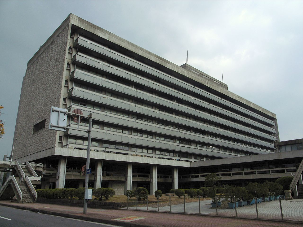 Oita Prefectural Office Building, Oita City, Oita Pref., Japan